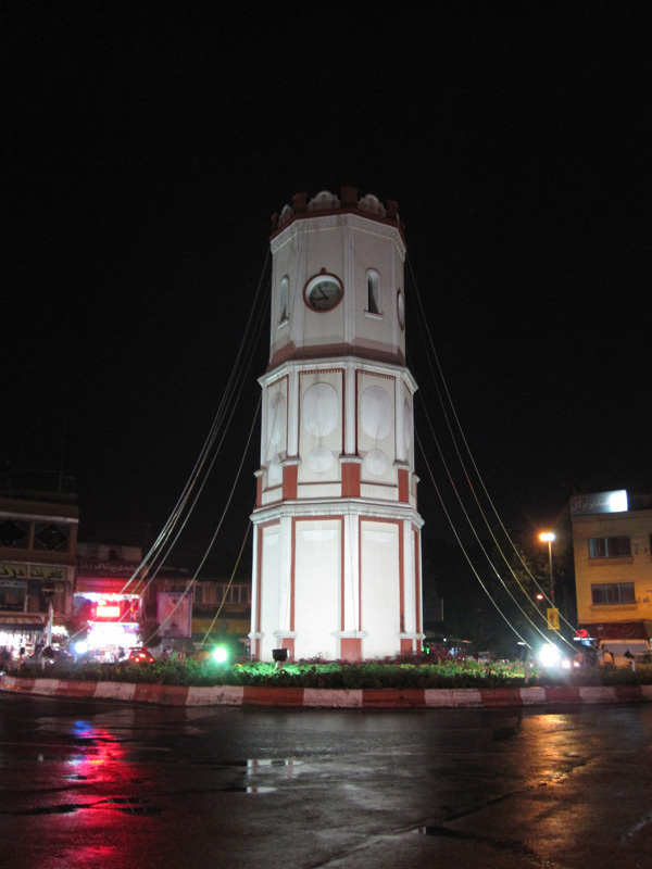 saat sq., Sari, Mazandaran, Iran